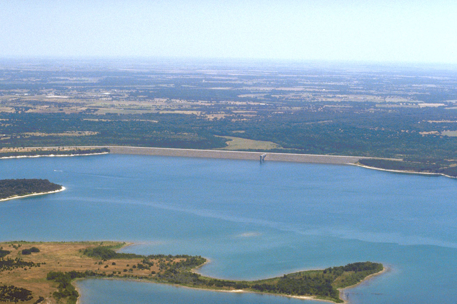 Aerial view of Stillhouse Hollow Lake and Dam on the Lampasas River in the Brazos River basin in Bell County, Texas, USA. The lake is located approximately 45 miles (72 km) southwest of Waco, Texas. The U.S. Army Corps of Engineers constructed the dam in 1968 for flood control on the river. View is to the east from behind the dam. Coordinates: 31°1′21.09″N 97°31′51.29″W / 31.022525°N 97.5309139°W